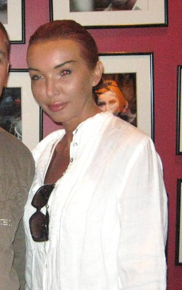 Fashion designers Ewa Minge.